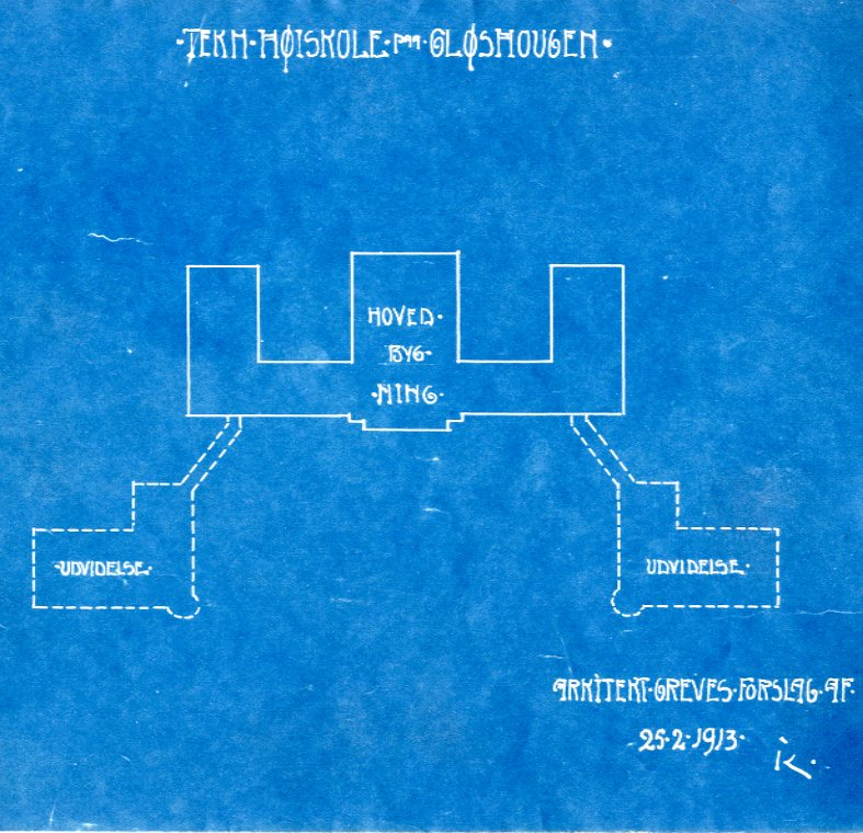 Suggestion for an expansion of the main building of NTH, The Norwegian Institute of Technology. Hovedbygningen - The main building - (without the expansions) is situated at what is now known as Campus NTNU Gløshaugen, Trondheim. The architect behind this suggestion was also the architect of the main building.